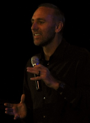 Pastor Brian Houston teaching at Hillsong Conference in Kyiv, Ukraine, on October 2, 2008.